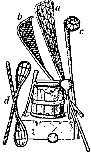 Stickball rackets by tribe a. Iroquois b. Passamaquoddy c. Chippewa d. Cherokee.